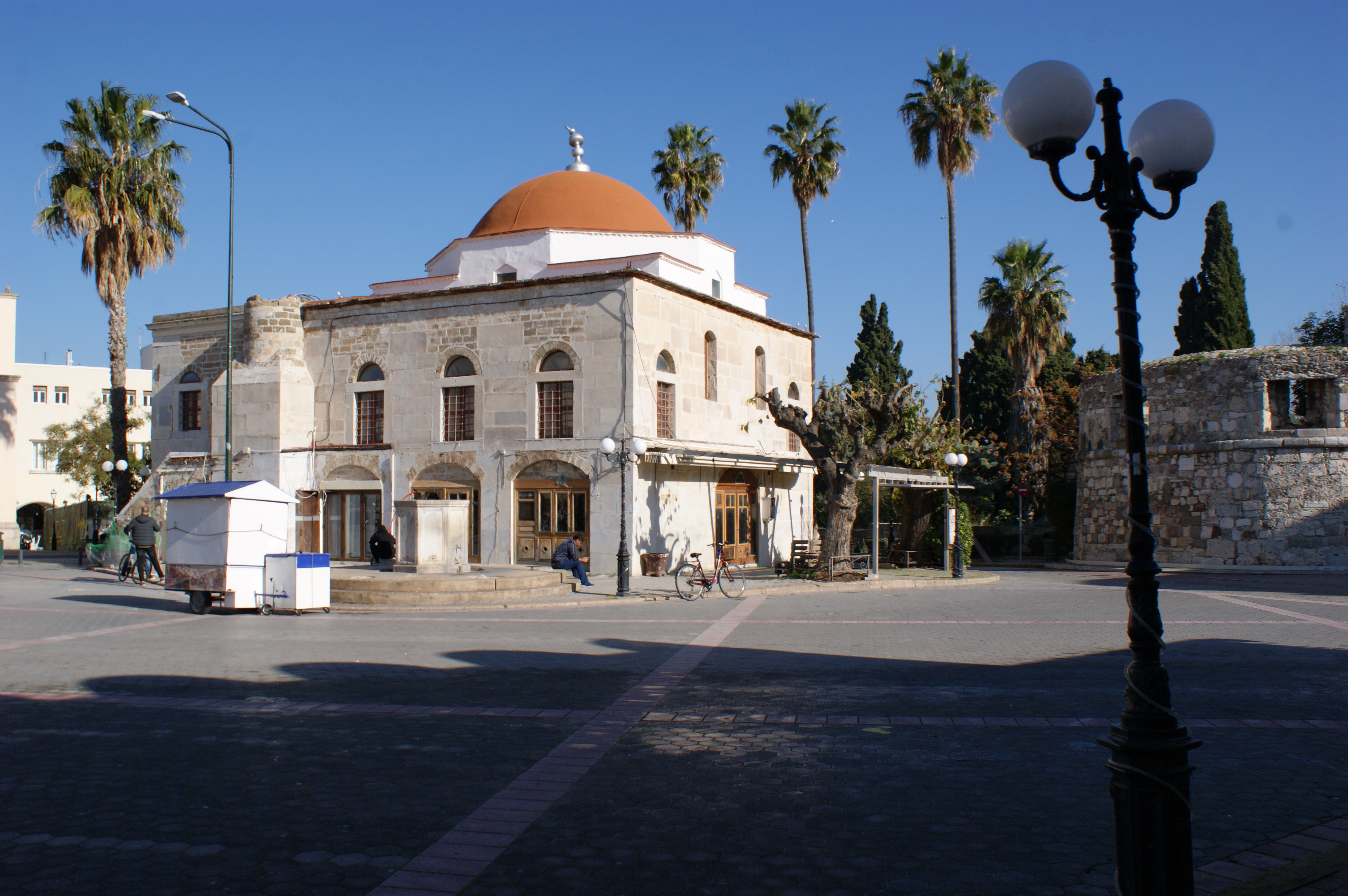 Eleftherias Square (also in Greek: Πλατεία Ελευθερίας, Platía Eleftherías, Turkish: Hürriyet Meydanı, Liberty Square) in the city of Kos on the Greek island of Kos. Defterdar mosque with the Muslim fountain (washing place). The fountain and the mosque were badly damaged in the 2017 earthquake, the minaret collapsed.